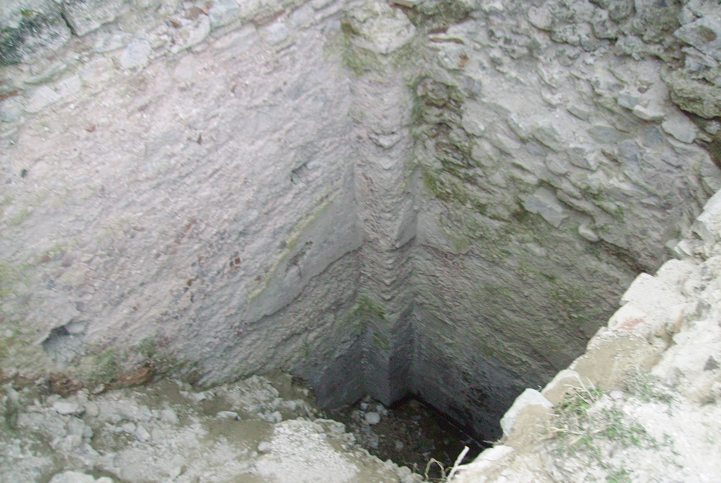 Carevi Kuli